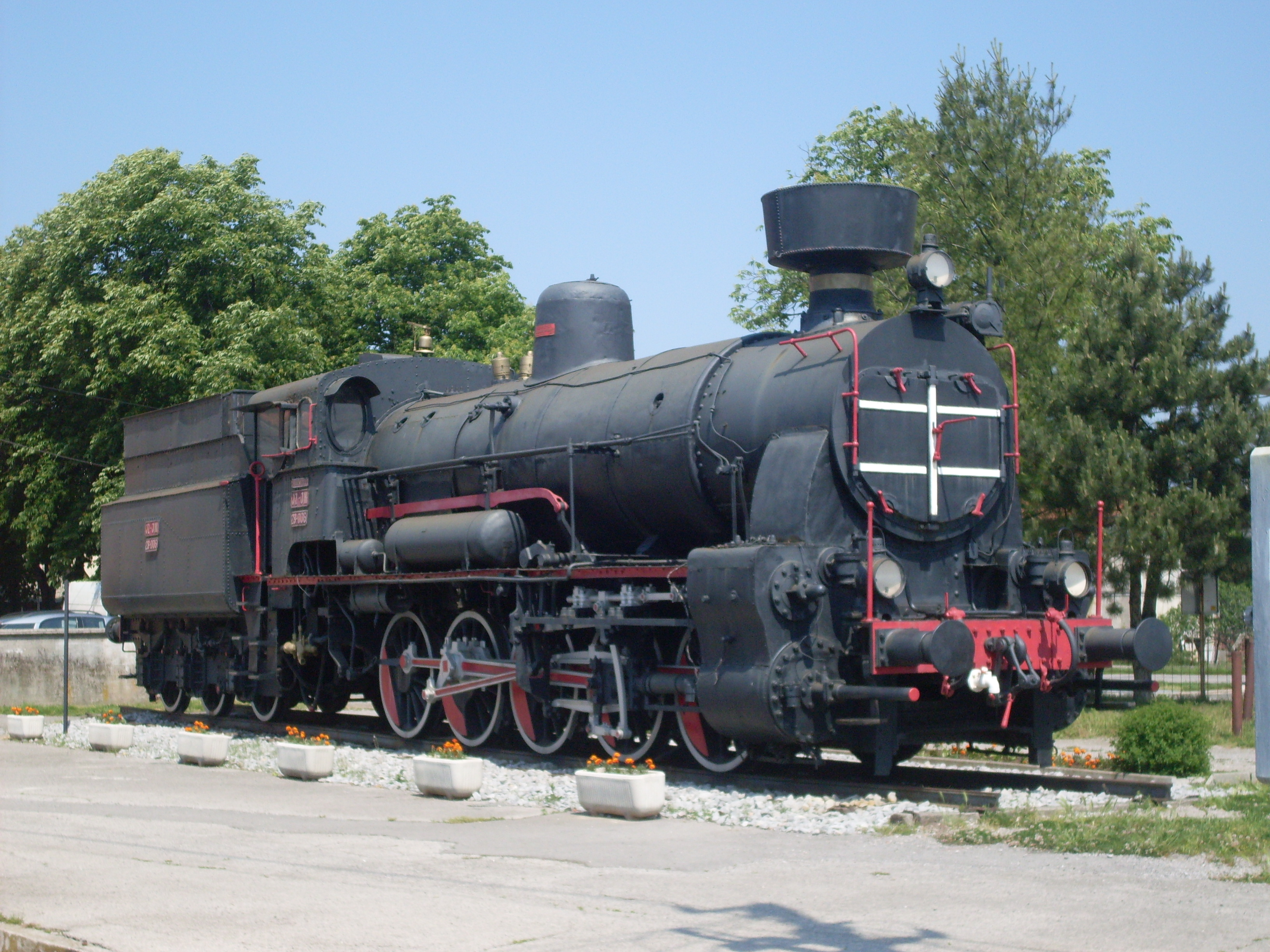 Normal gauge steam mountain freight locomotive JŽ 28-006at the train station in Divača, Slovenia. Length: 17.3 m, steam pressure: 14 bar, mass: 110 t, power: 700 kW, diameter of driven wheels: 1259 mm, max. speed: 50 km/h Produced by G. Sig. Wiener Neustadt in 1922, serial nr. 5740. Since the end of the WW1, locomotives of this series were used to pull heavy freight trains on all Slovenian major rail lines. They were very useful and were in use all until 1978 when steam locomotives were abandoned in Slovenia. Pospichal Lokstatistik. About the class 28. More photos.